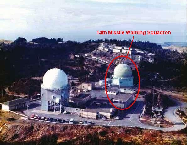 Aerial photograph Mill Valley Air Force Station taken from United States Army helicopter; photo shows FPS-107 radar in left foreground with 14 Missile Warning Squadron radar behind and to in right.